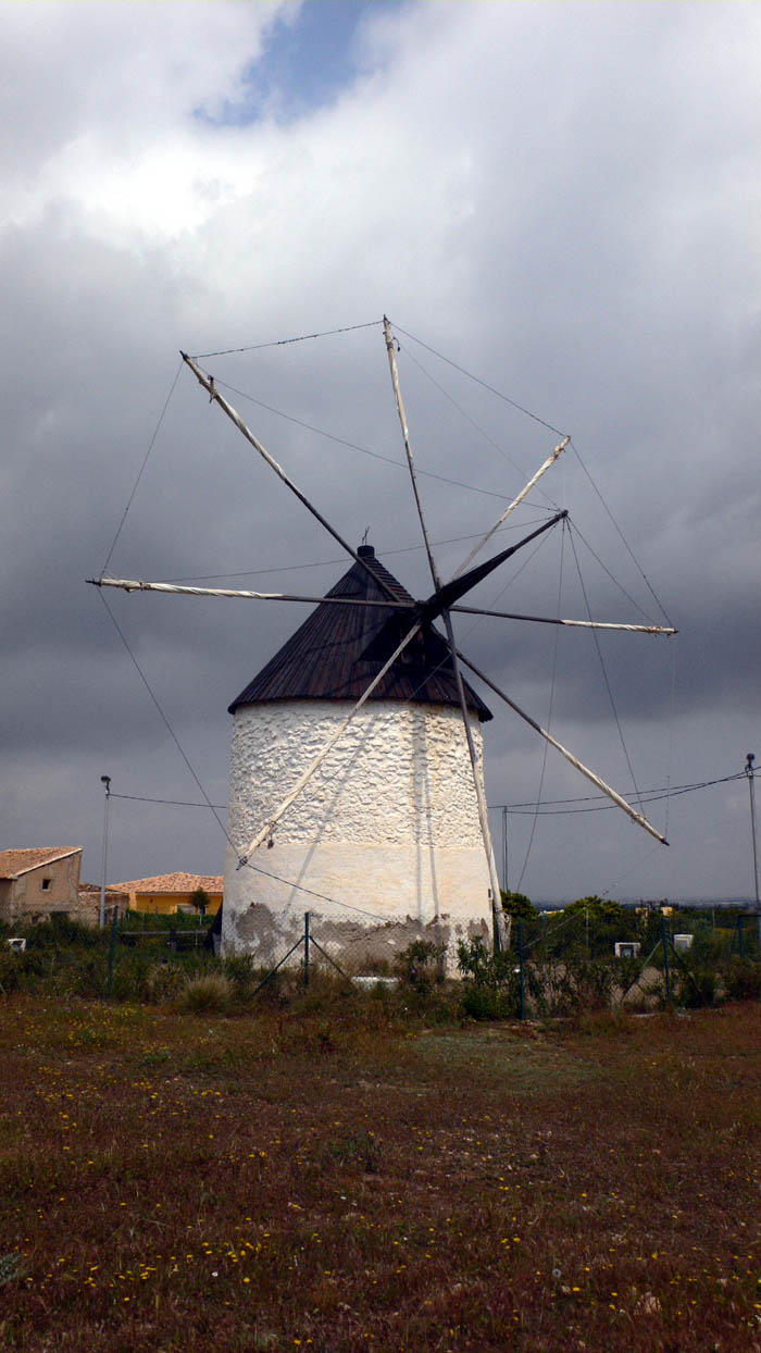 The Zabala Windmill in Cartagena, Spain